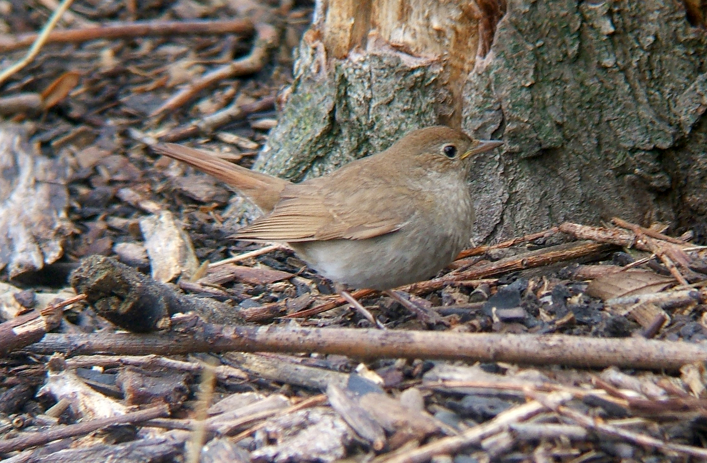 Thrush Nightingale Luscinia luscinia, Hartlepool Headland, Co Durham, UK